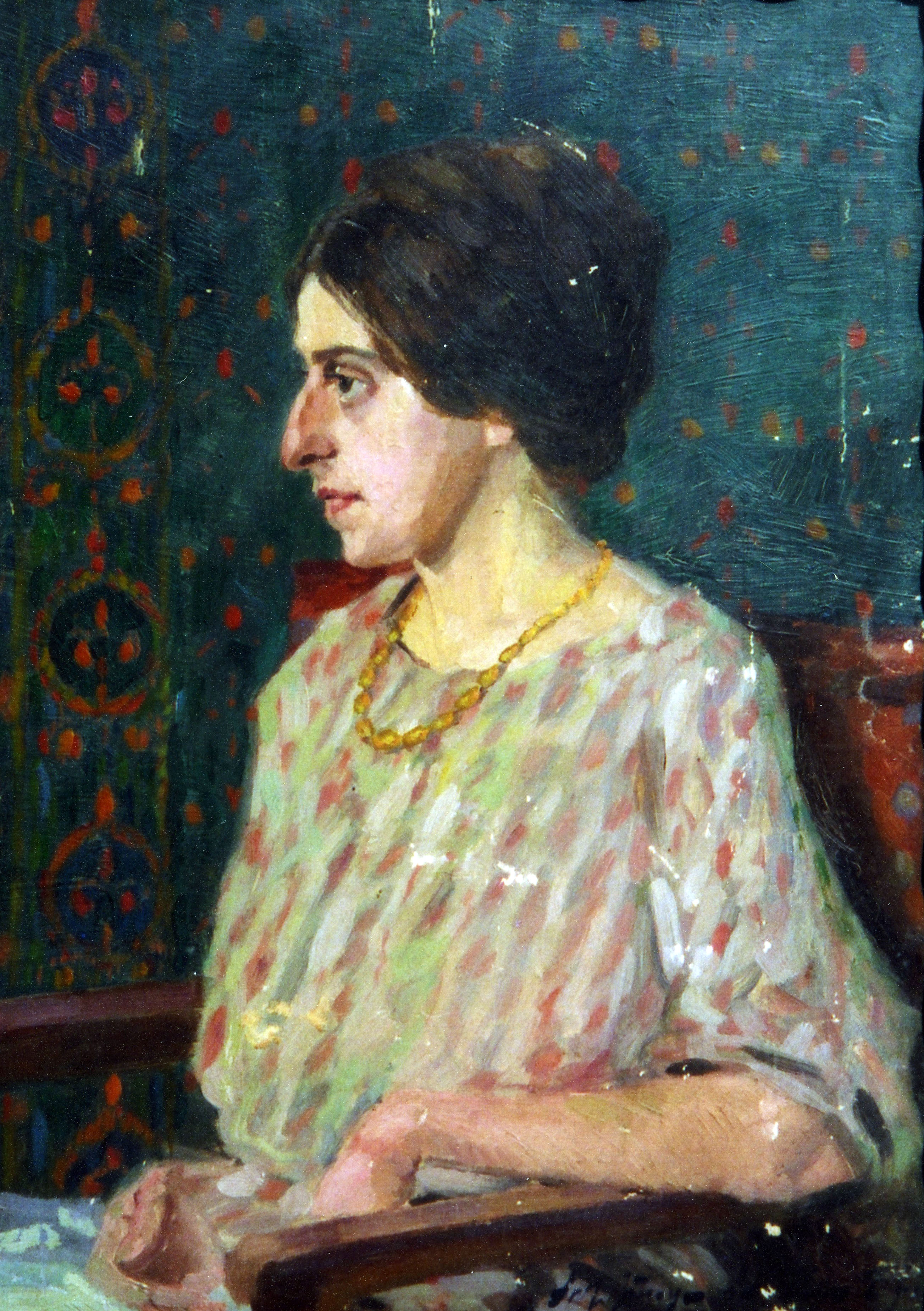 Kaete Dan painting by Carl Jung-Dörfler 1920s